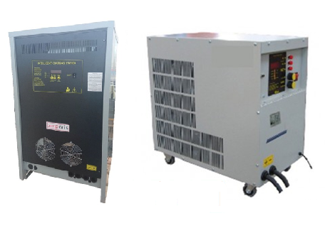 The Amperis battery regenerator eliminates sulfation by high frequency electric pulsation, thus eliminating lead sulfate, restoring battery capacity and extending the life of old and sulfated batteries.